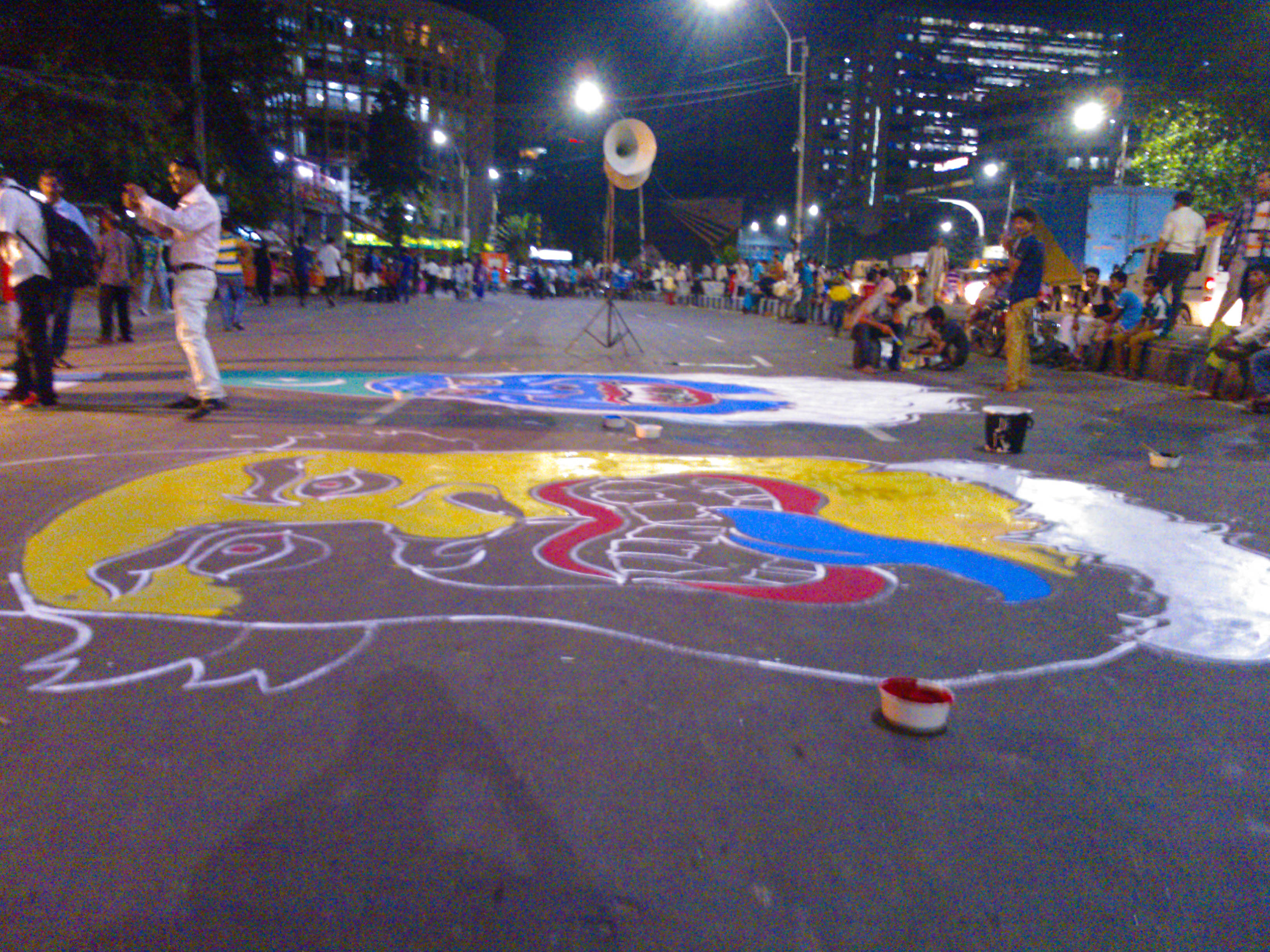 GonoJagoron Moncho, Demanding Death Penalty of Motiur Rahman Nizami